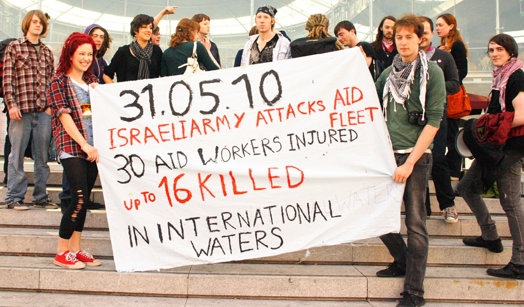 Students from the University of East Anglia (UEA) hold an emergency protest against the Israeli attack on the aid convoy to Gaza. They are demonstrating outside the Forum in Norwich.